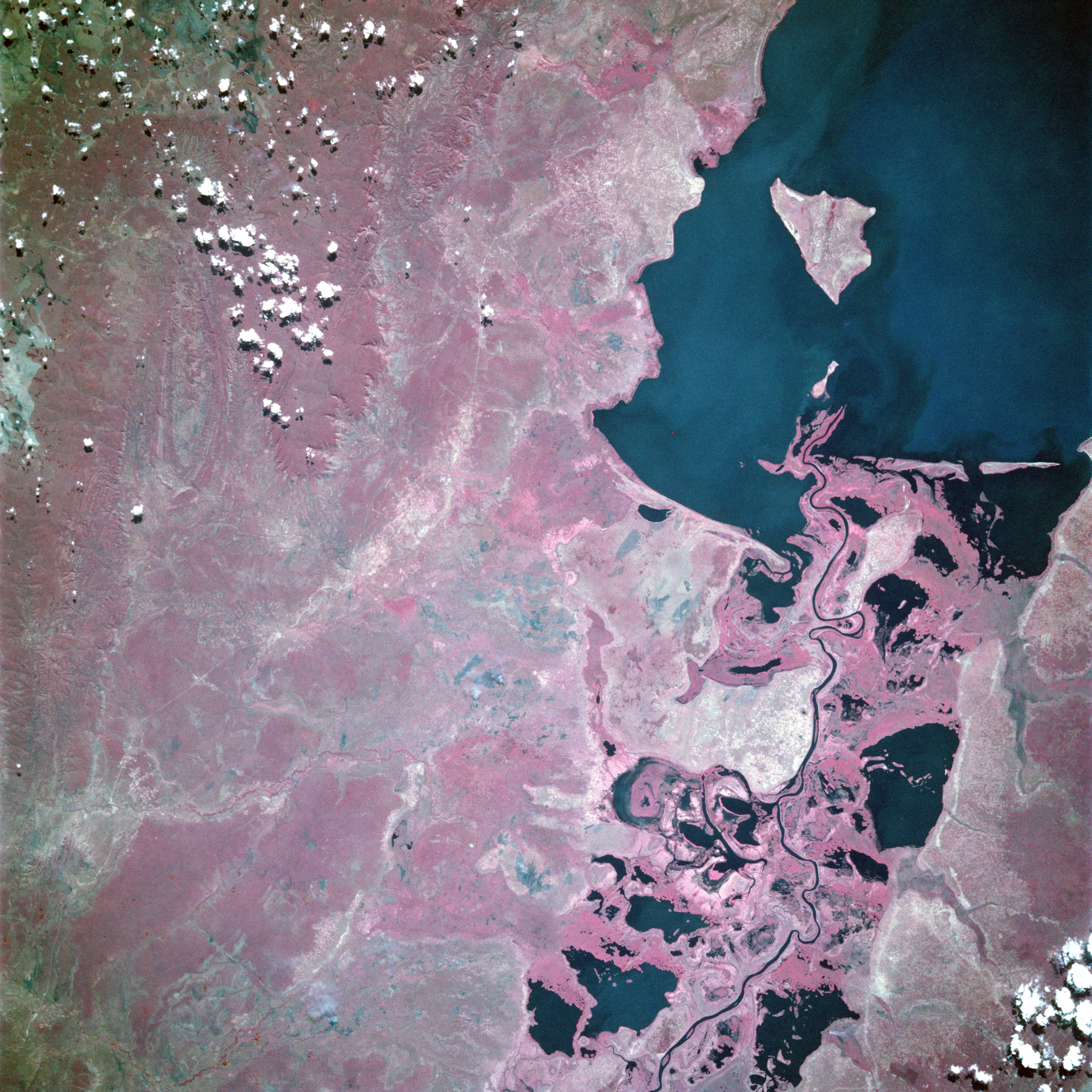 Lake Mweru, Democratic Republic of the Congo and Zambia - June 1993 The southern end of Lake Mweru, a large freshwater lake with a maximum depth of at least 80 feet (25 meters), is visible in this near-vertical, color infrared photograph. The lake forms part of the border between Zaire to the west and Zambia to the east. The lake, noted for its large fisheries, is part of the Bangweulu wetland system and the Luapula River, which flows northward through the lake and is a headstream of the Zaire (Congo) River. The Luapula River's main channel, south of the lake, meanders through the swampy floodplain where many open bodies of water are identified as dark features within the heavily vegetated marshland. The roughly triangular lake island near the southern end of Lake Mweru belongs to Zambia. Visible west of the lake is the northern portion of the Kundelungu Mountains, a range of low mountains and escarpments, through which a roadway winds between some of the more elevated landforms. The reddish pink color on color infrared film designates green vegetation and indicates areas with dense foliage south and west of the lake.